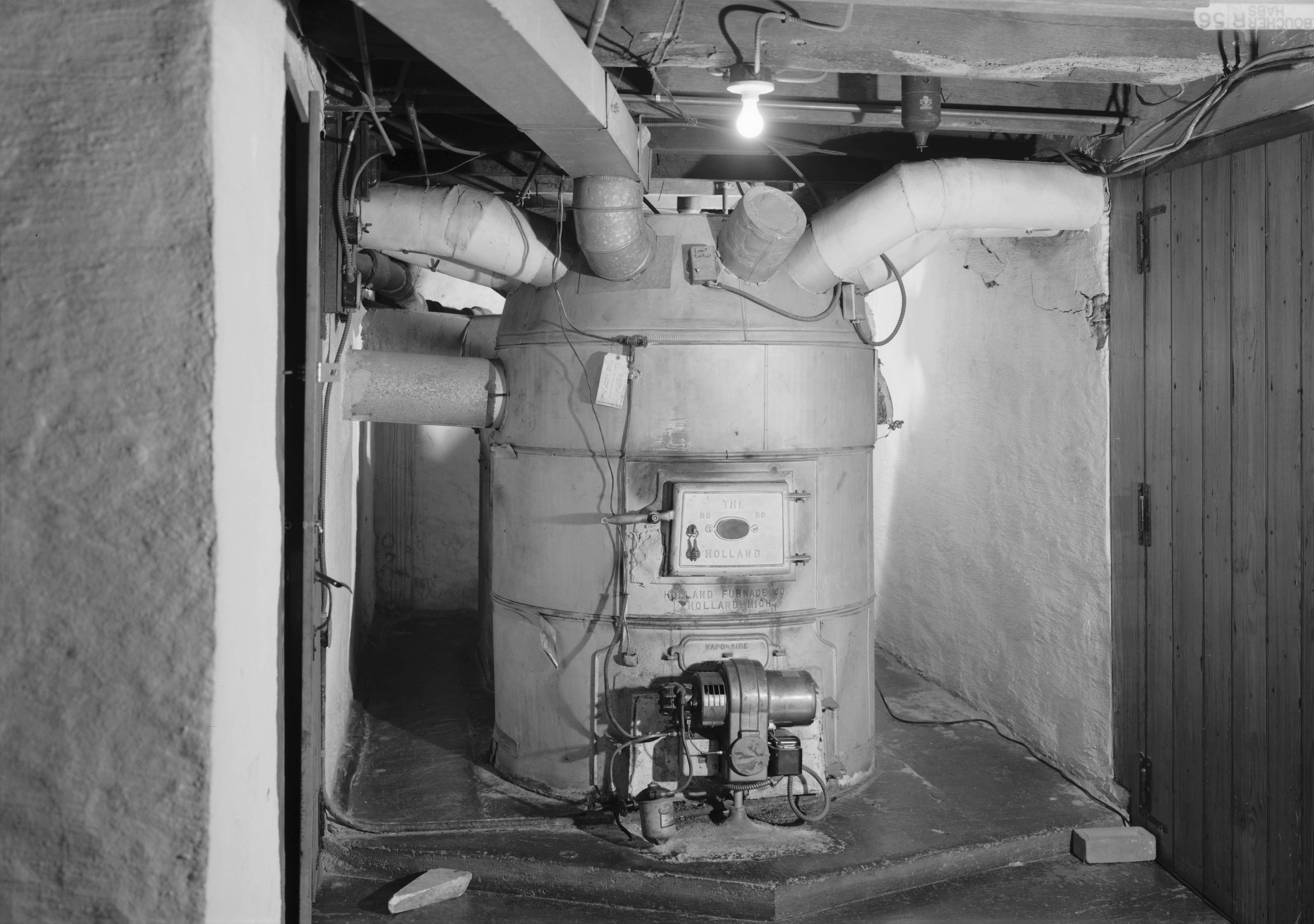 A photo of an "octopus"-style Holland No. 50 hot-air heating furnace that has been equipped with an oil burner. This furnace was installed in a basement location at the Snow Hill manor house in Maryland, USA. (This image is a cropped version of the original photo with the border removed.)